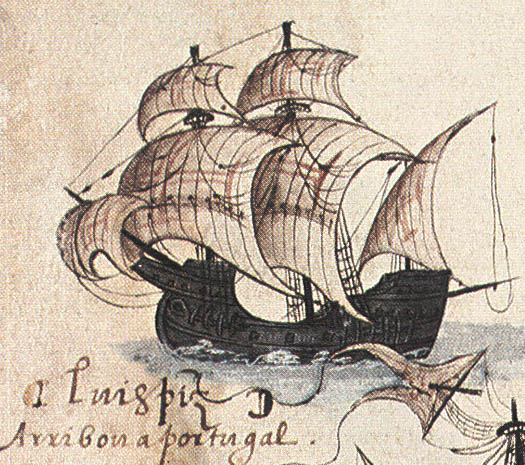 Detail of a page from the Portuguese book Memória das Armadas que de Portugal passaram à Índia or "Memorandum of the Fleets" in English, circa 1568. Depicts the vessel of captain Luís Pires, part of the armada of Pedro Álvares Cabral 1500.